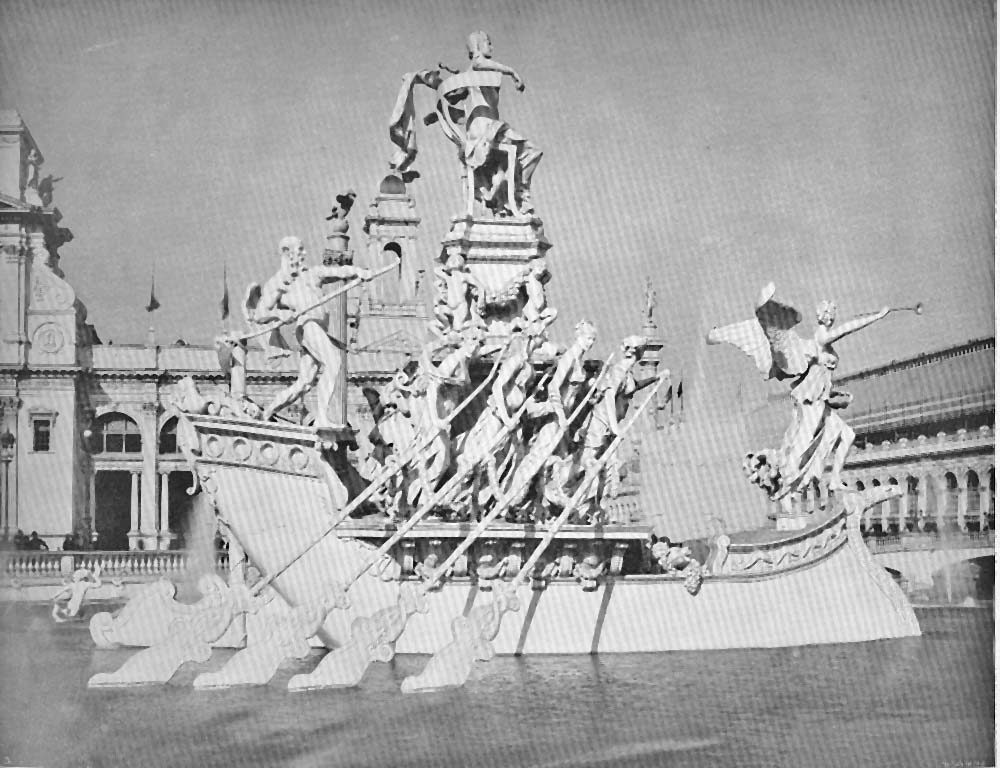 Fountain by Frederick MacMonnies, Chicago, IL, USA 1893